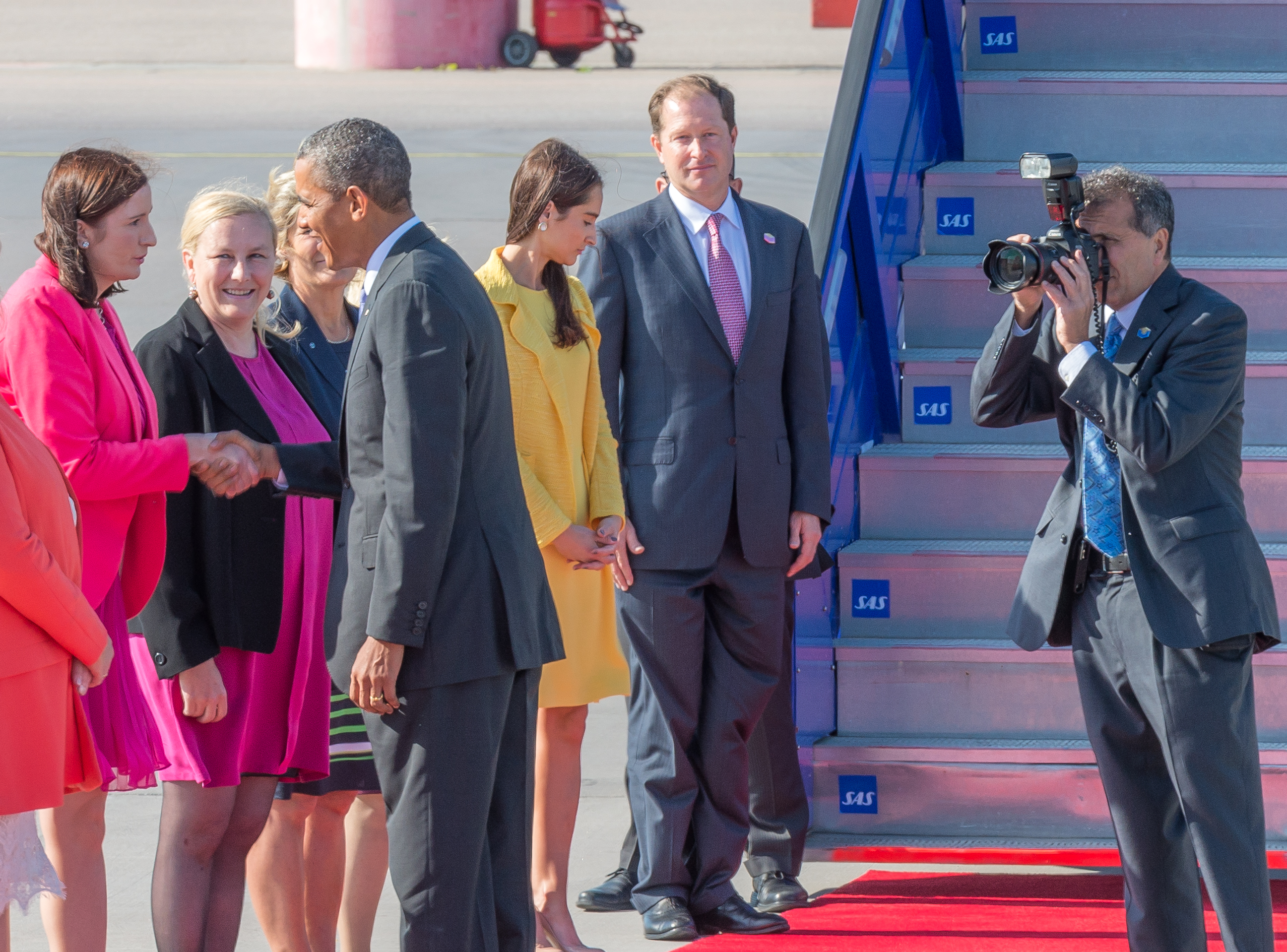 President Barack Obama leaves Sweden September 5, 2013 after a one day stop-over on his way to the G20 summit in Saint Petersburg.